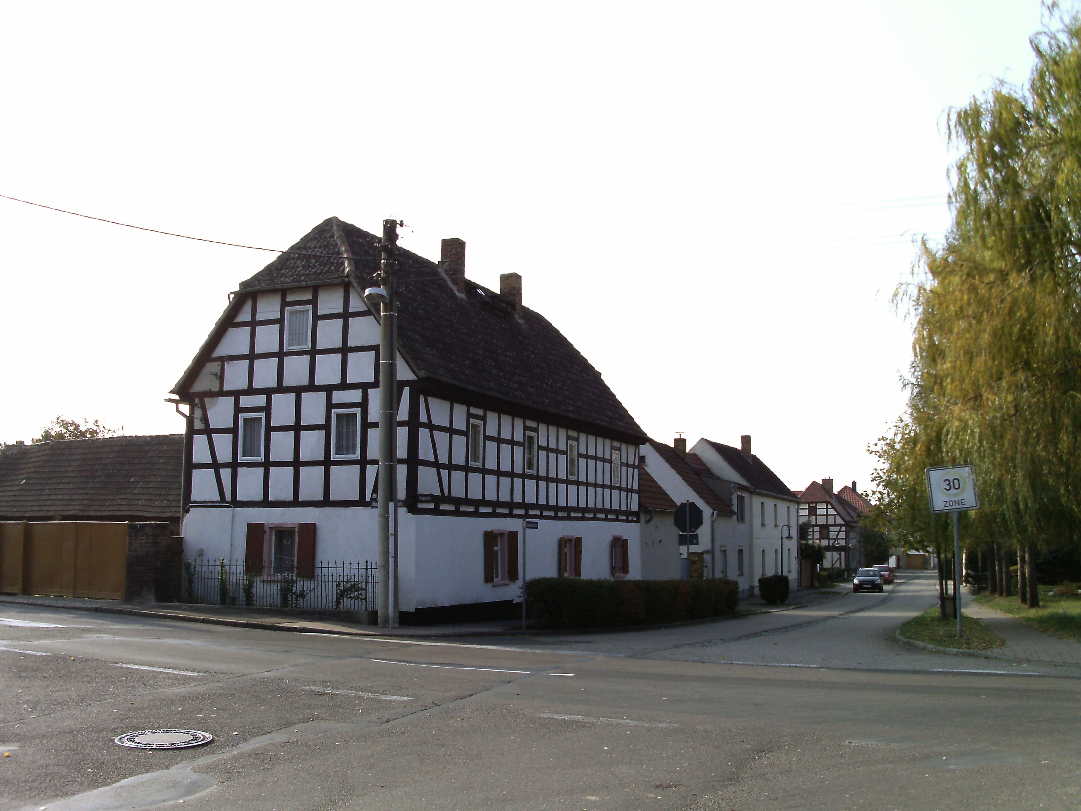 Friedensstrasse in Starsiedel (Lützen, district of Burgenlandkreis, Saxony-Anhalt)